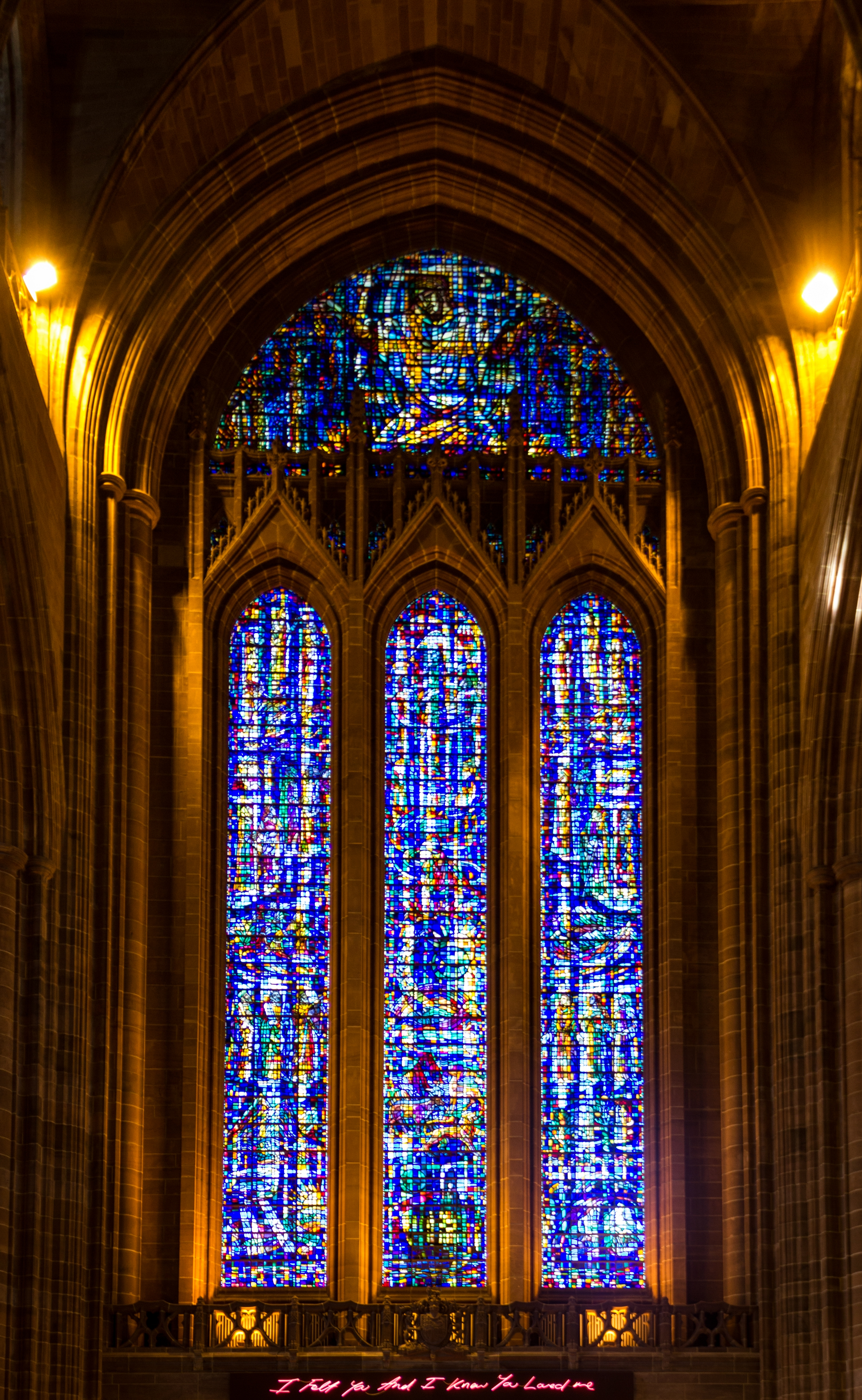 Liverpool Anglican Cathedral's stained glass west window. The uppermost window is the Bedicite window. The pink neon sign by Tracey Emin - written in the artist’s handwriting - reads "I felt you and I knew you loved me“ and was installed for the 2008 Liverpool European Capital of Culture.